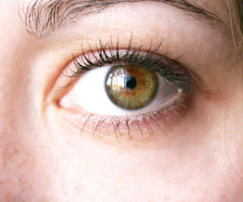 Example of hazel-green eye. Photo taken by myself of my own eye. Laurin Guadiana